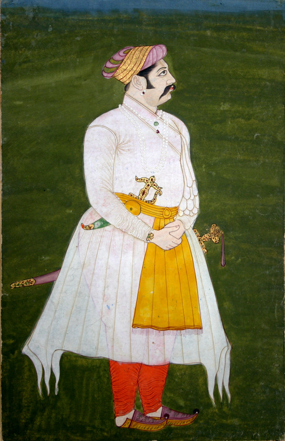 Rao Maharaja Maldev Ji (otherwise known as Maldeo and Malladeva) of Jodhpur 1532-1562.